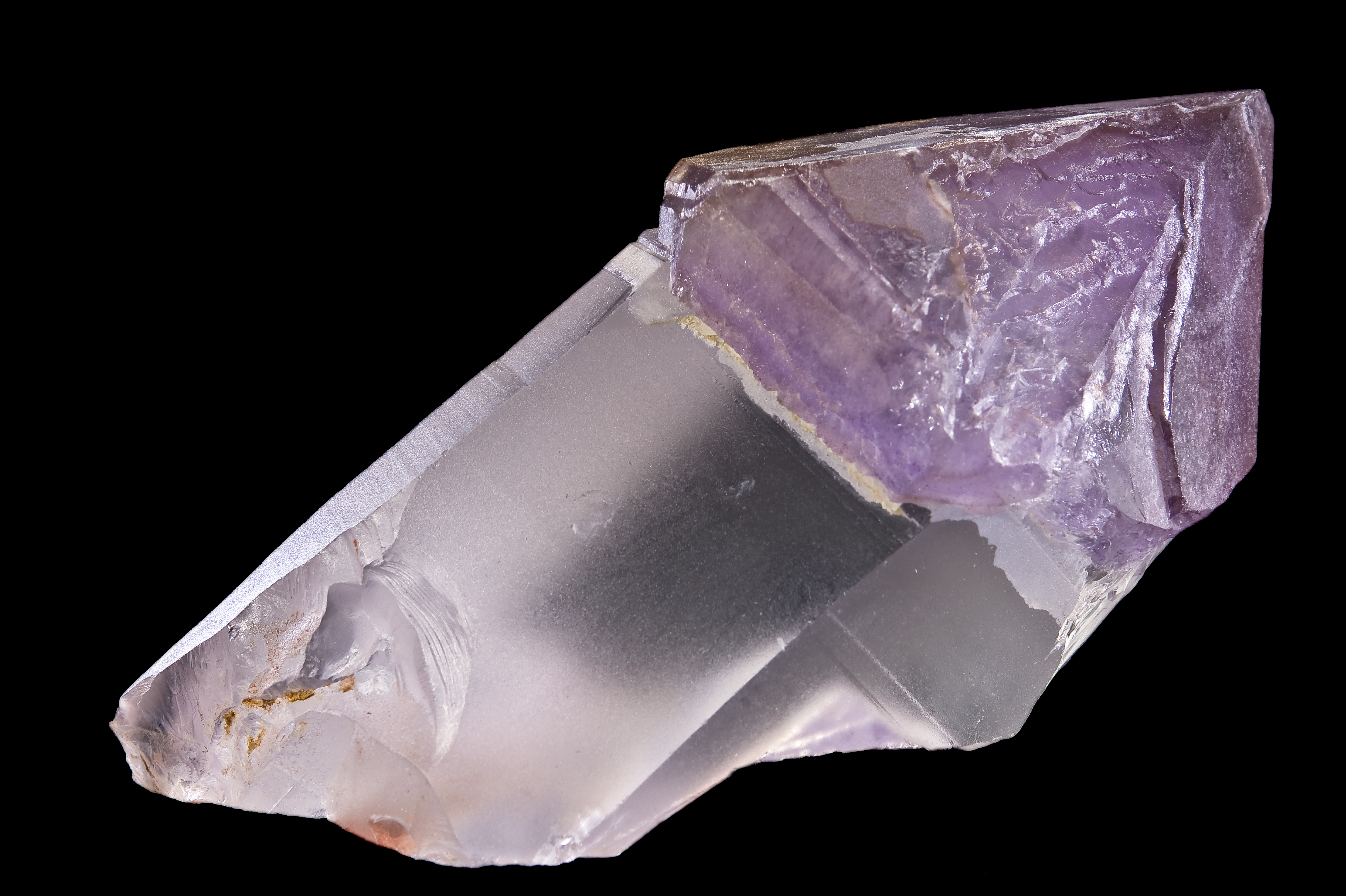 Amethyst - Antsakoanimanta deposit, Mangatabohangy Commune (Mangatobangy), Ambatofinandrahana District, Amoron'i Mania Region, Fianarantsoa Province, Madagascar - (11,5x5,3cm)